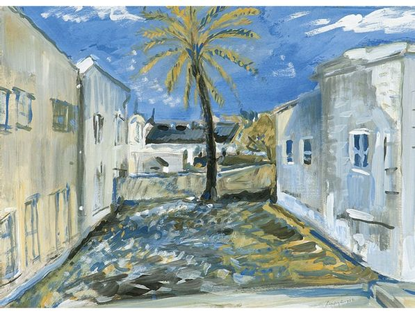 Lippy (Israel-Isaac) Lipshitz (1903-1980), The Palm Studio (1936), gouache, 32 x 43.5 cm. The Palm Studio was at 18 Roeland Street, Cape Town and was used by the sculptor Lippy Lipshitz and painter Wolf Kibel during the 1930s.